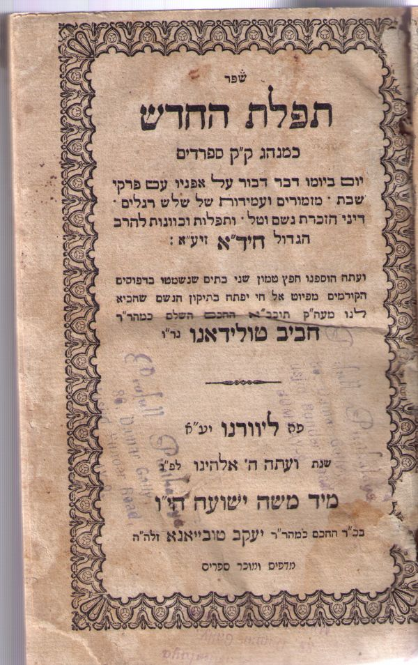 Sidur printed in Livorno 1844